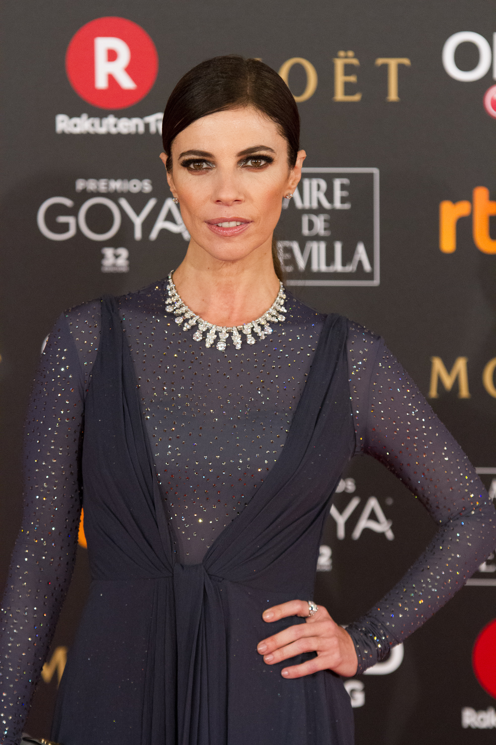 32nd Goya Awards, 2018.